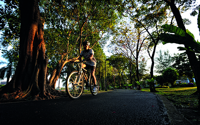 Covering an area of 430 rai, Benjakiti Park lies at the heart of the city on Ratchadapisek road, Khlong Toei district. This area was once an artificial lake, a result from excavation for factory construction, belonging toTheThailand TobaccoMonopoly. After the factory was relocated, this place was developed into a green area for Bangkokians in order to celebrate HRH Queen Sirikit’s 60th birthday anniversary in 1992. Queen Sirikit named this park “Benjakiti”, and designed herself a model of a garden as well as flowering and ornamental plants to be grown each month. The official opening ceremony was held on 9th December, 2004, presided over by the queen. The park is divided into 2 parts: the first part comprises Benjakiti field, a large area which connects both a jogging track and a cycling track and features “Pathum Chat”, a blooming golden lotus sculpture on the topmost post.; a field for activities associated with traditions, art and culture, traditional games, and an area of a Buddha statue “Phra Phuttha Wisuthi Mongkol”; the second part features the Bangkok’s first and largest aqua park, covering two third of the part, with a large lake under the concept “Forest Preserving Water” and small forest parks resembling actual ones in each region.